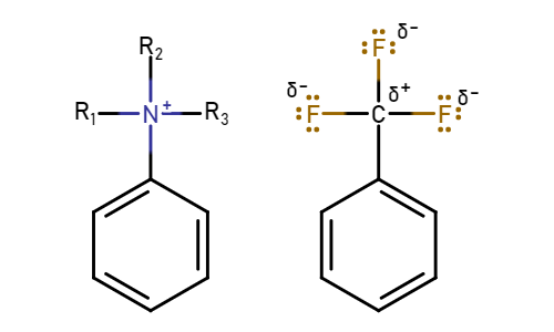 These group contains formal or partial positive charge. Hence they are deactivatiors and m- directors